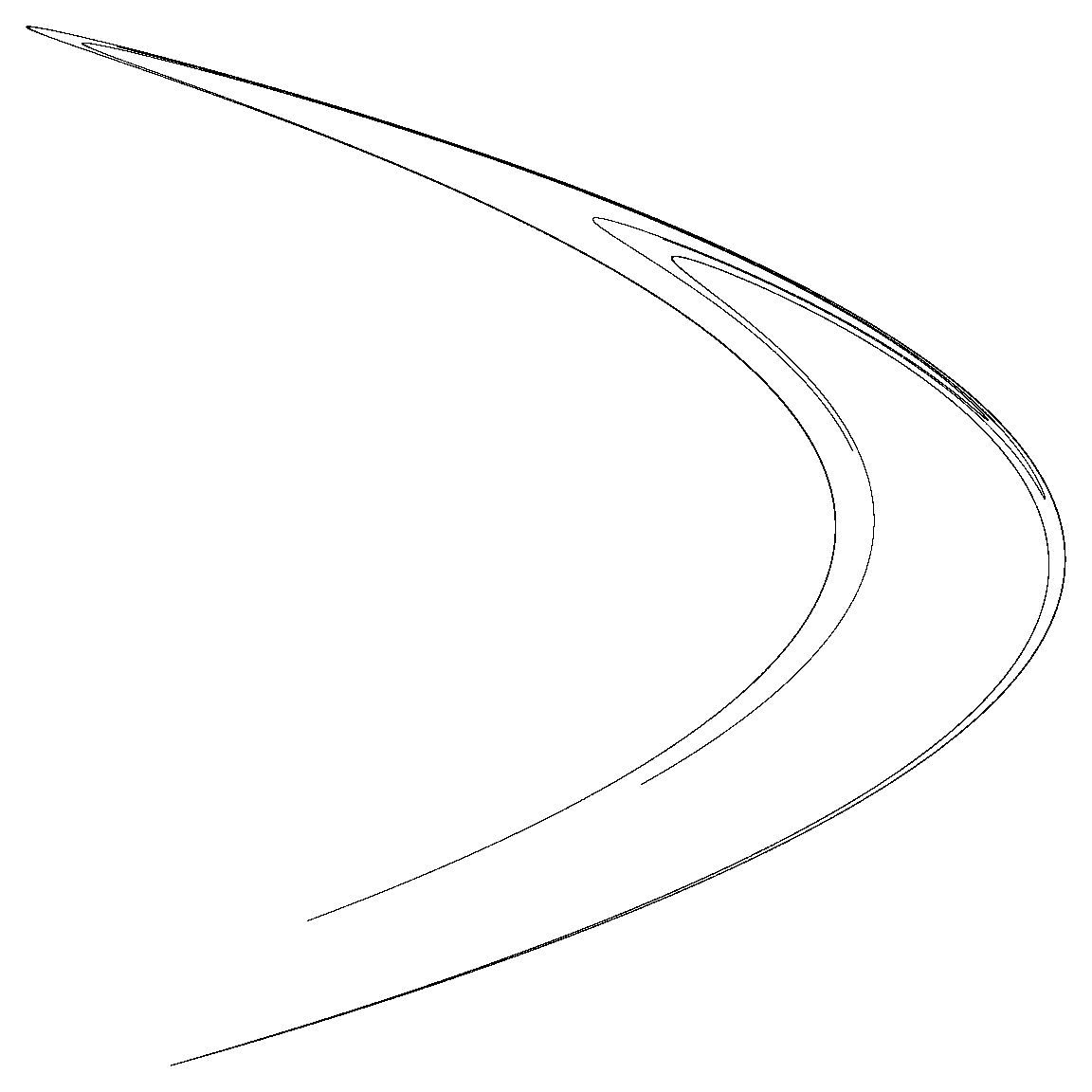 Henon Attractor Generated with Mathematica.